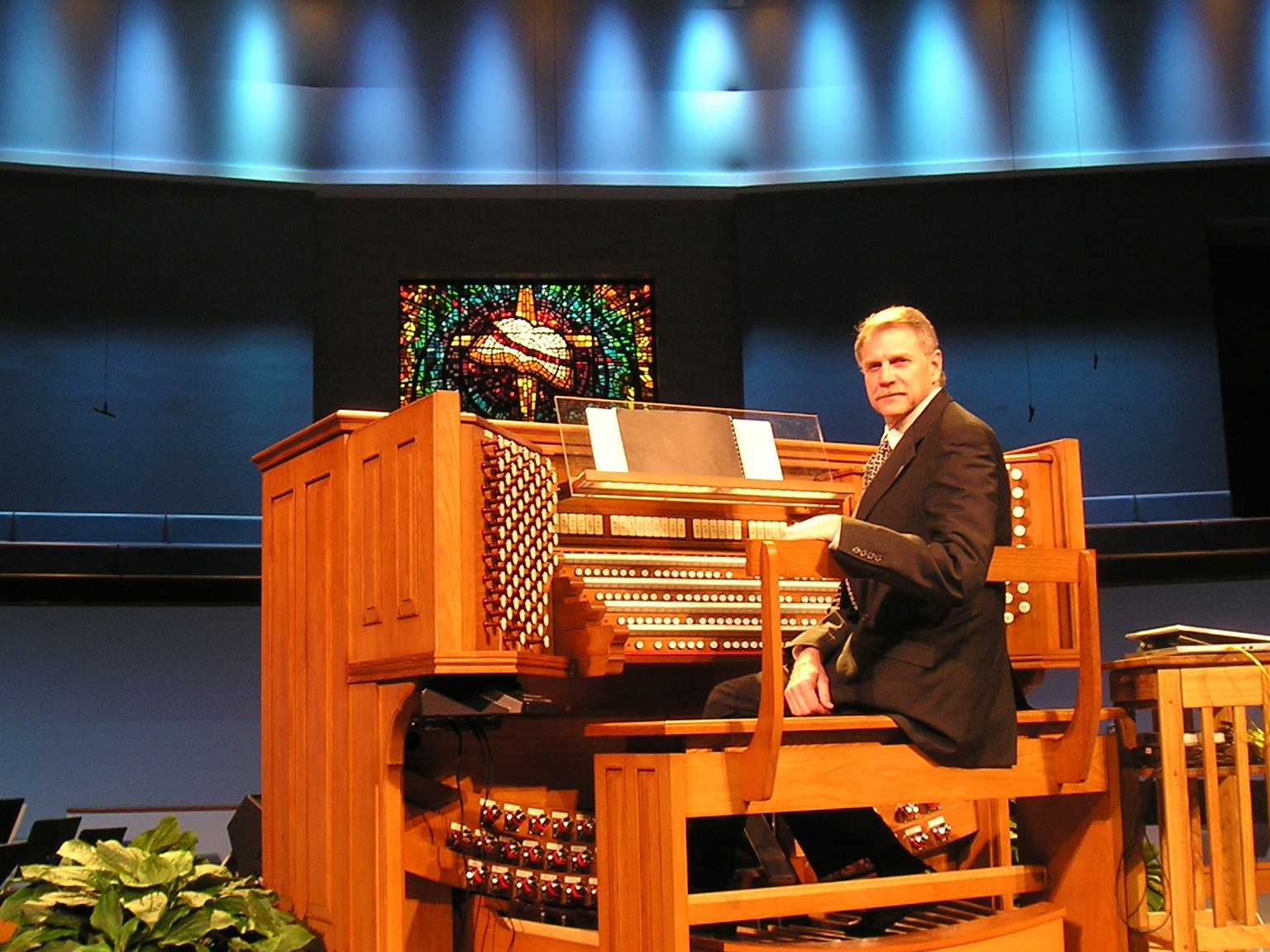 Custom Four Manual Rodgers Organ